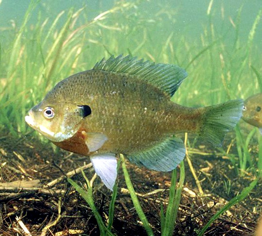 Bluegill (Lepomis macrochirus)